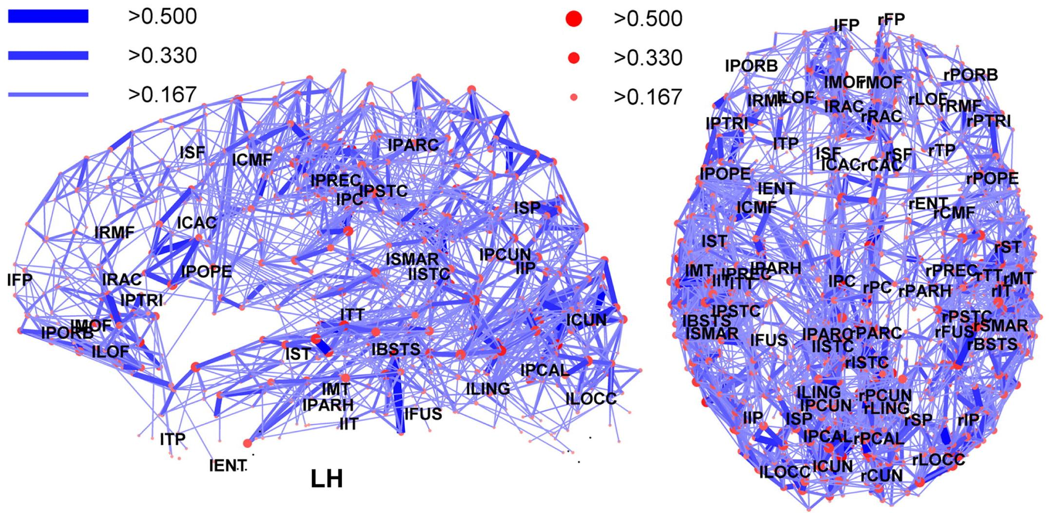 Dorsal and lateral views of the connectivity backbone of human brain. Labels indicating anatomical subregions are placed at their respective centers of mass. Nodes (individual ROIs) are coded according to strength and edges are coded according to connection weight (see legend).